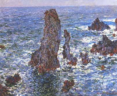 Les rochers de Belle-Ile